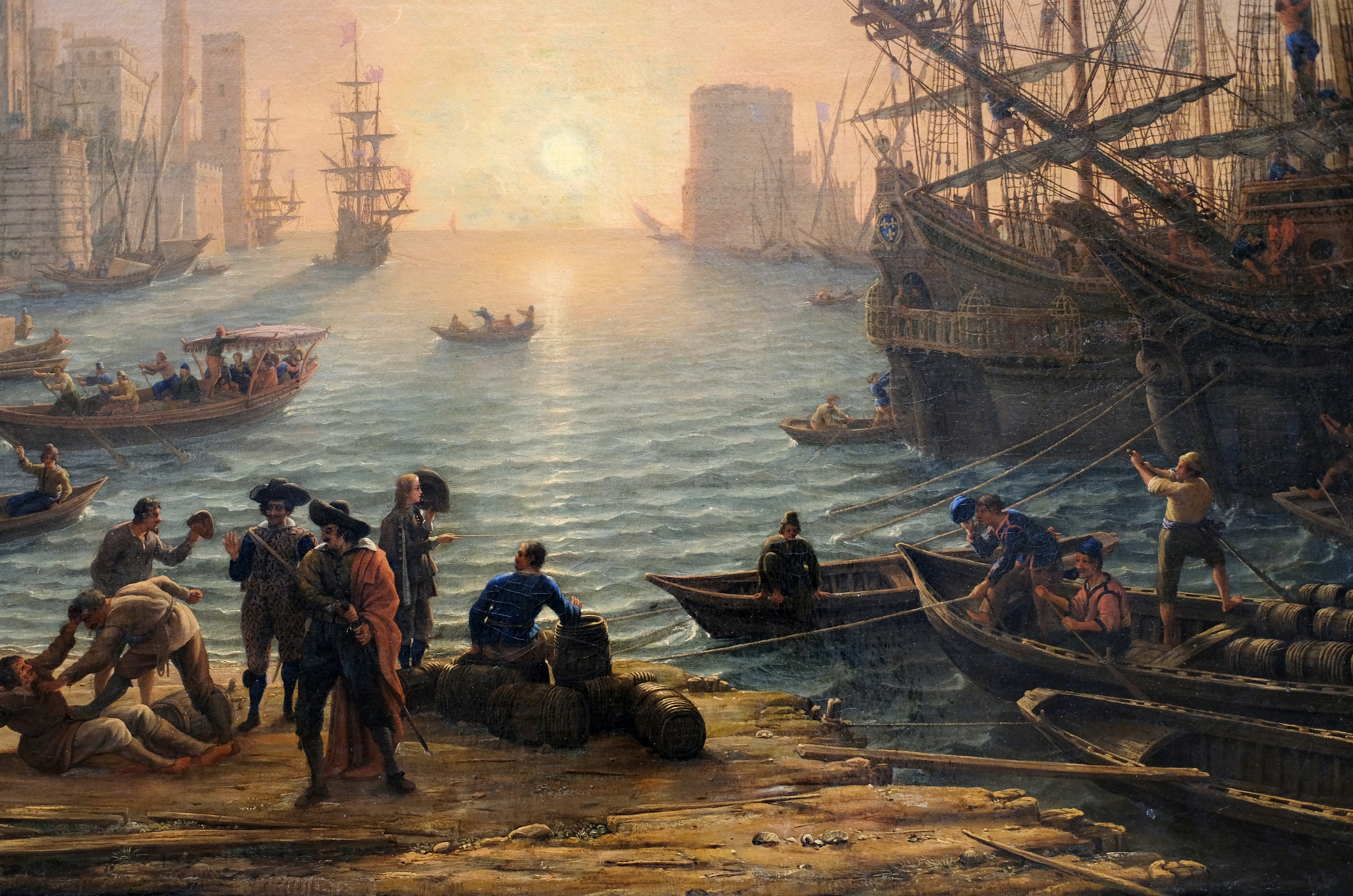 Claude Lorrain painting from 1639, as seen on French TV series Palettes